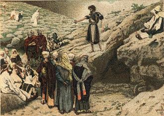 from [1]